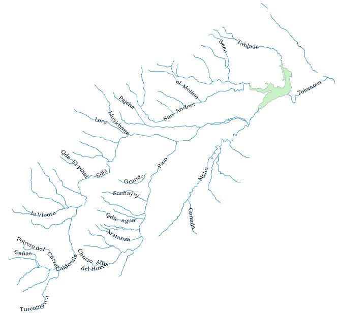 River names and hydrography of the Tolomosa river (Bolivia)